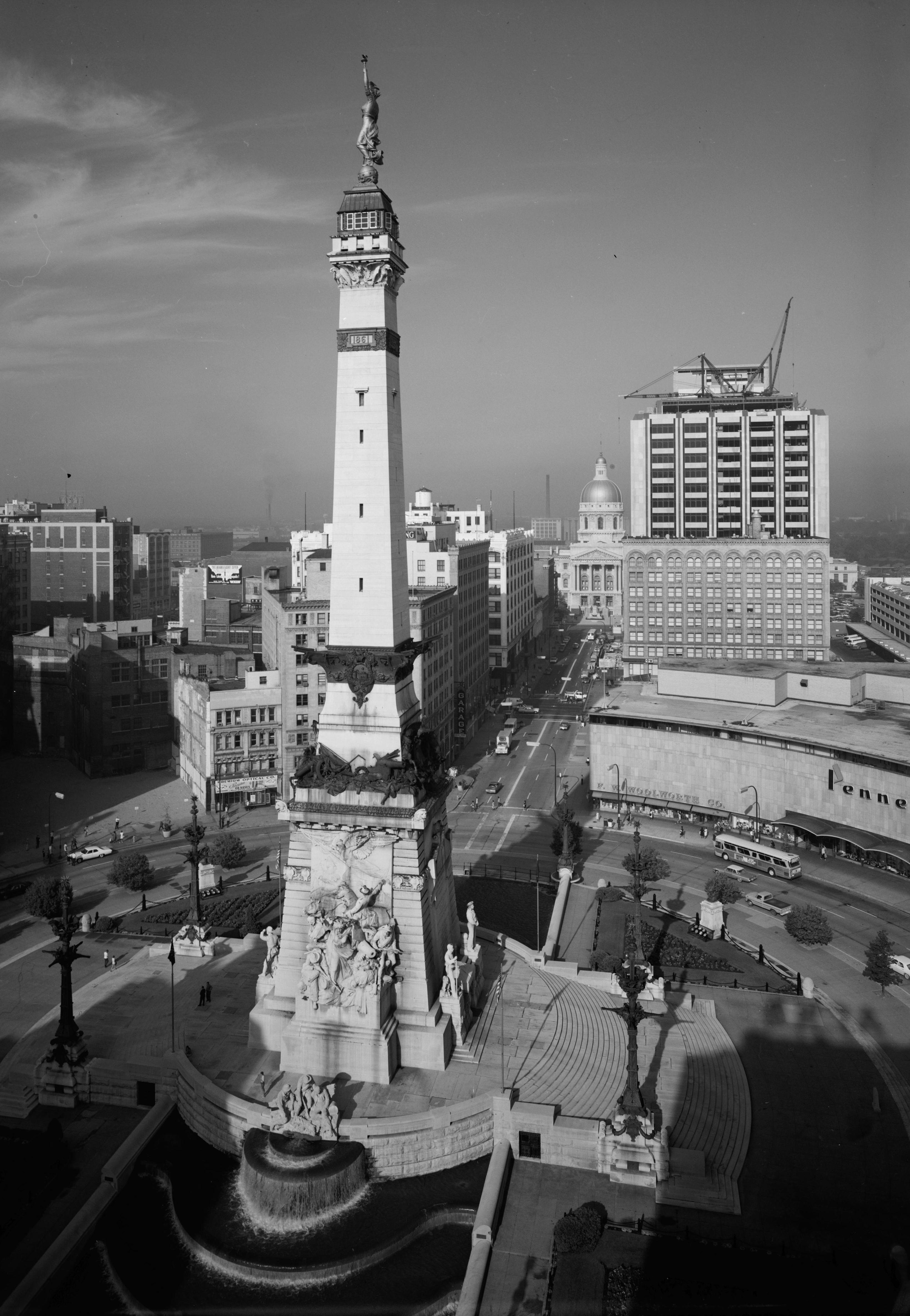 Eastern side of the Indiana Soldiers' and Sailors' Monument, located in the middle of Monument Circle in the heart of downtown Indianapolis, Indiana, United States. It and the buildings around it — although not the Indiana Statehouse visible in the distrance — are part of the Washington Street-Monument Circle Historic District, a historic district that is listed on the National Register of Historic Places.